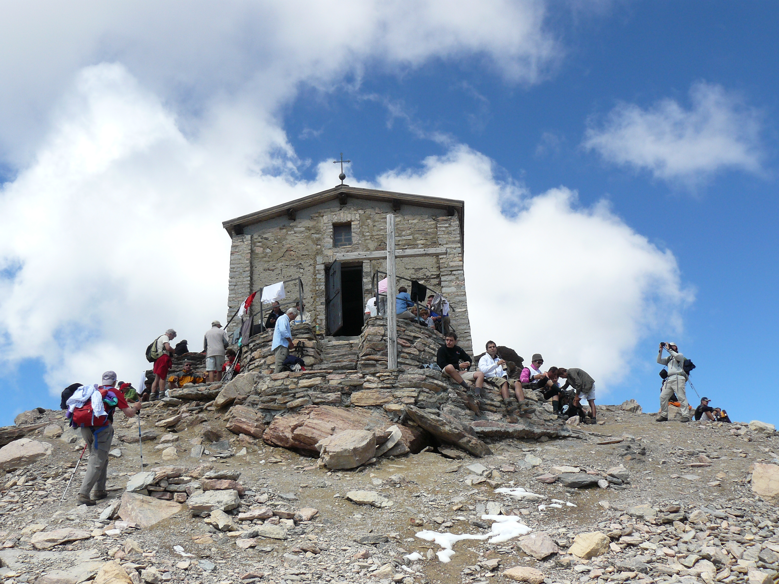 View of the Mont Thabor chapel in the Alps, France